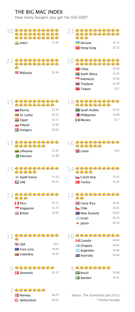 Visualizing how many Big Mac -burgers you get for $50 USD in different countries. Data based on the Big Mac index by The Economist -magazine January 2012.